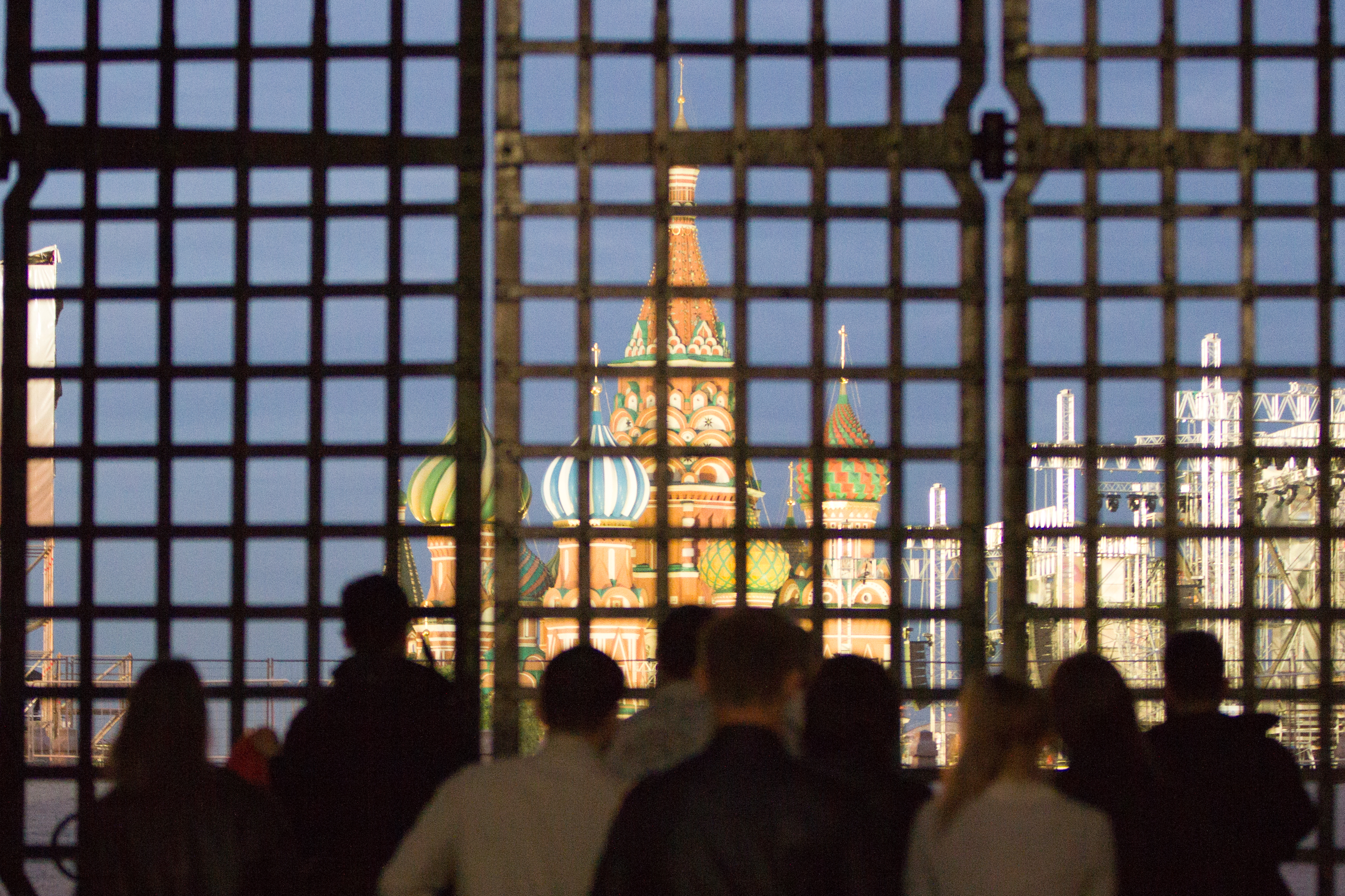 Russia